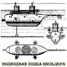 Submarine by Karl Schilder